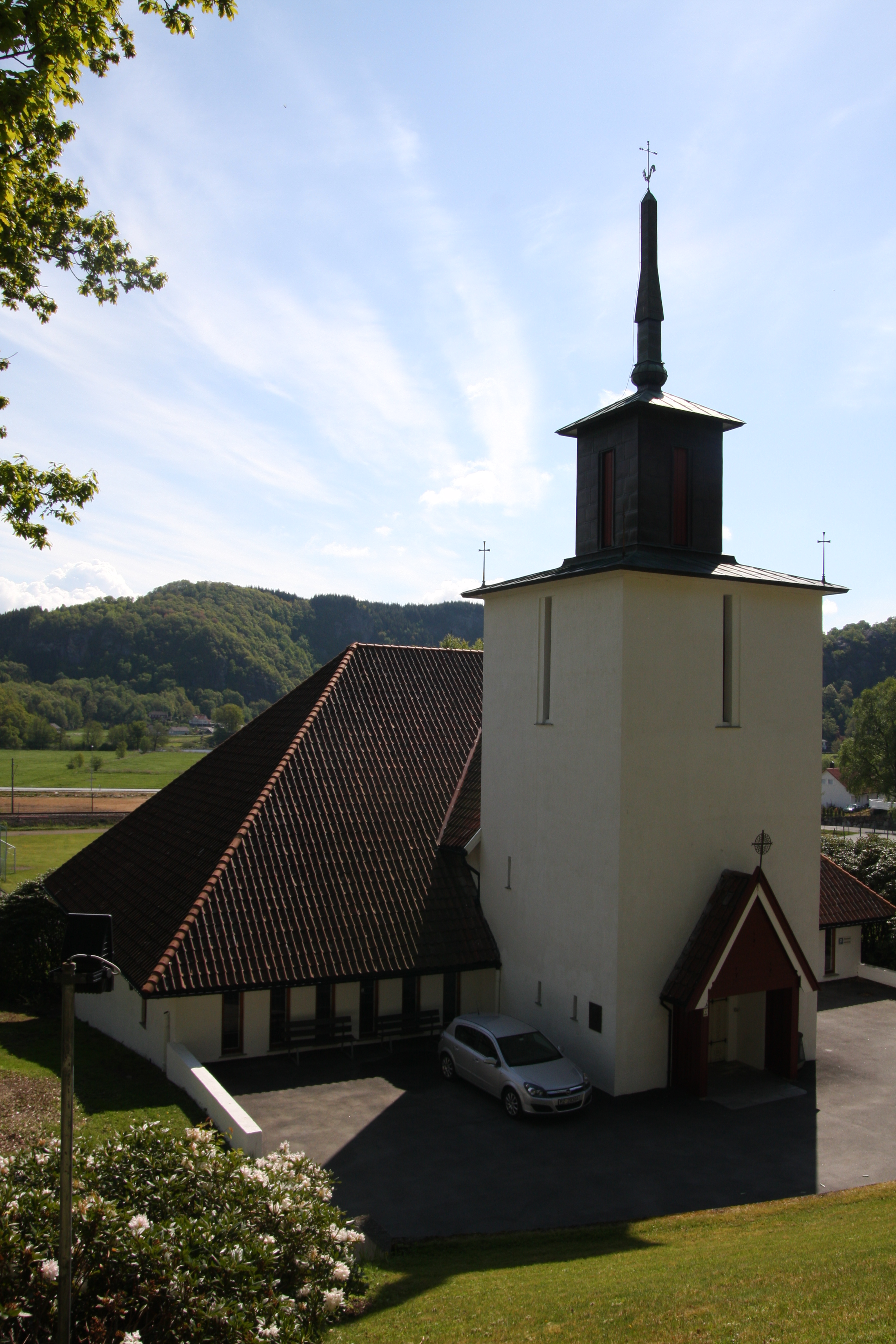 Bakkebø Church from 1960 in Eigersund, Rogaland, Norway. Architects Arnstein Arneberg and Olav S. Platou.